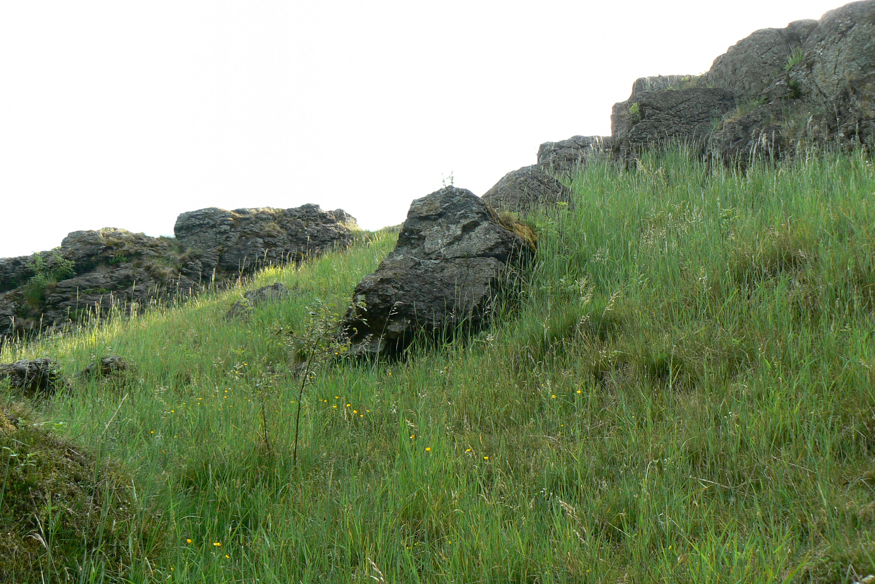 Nature protected area Dominova skalka near Nová Ves village in Sokolov district, Czech Republic.